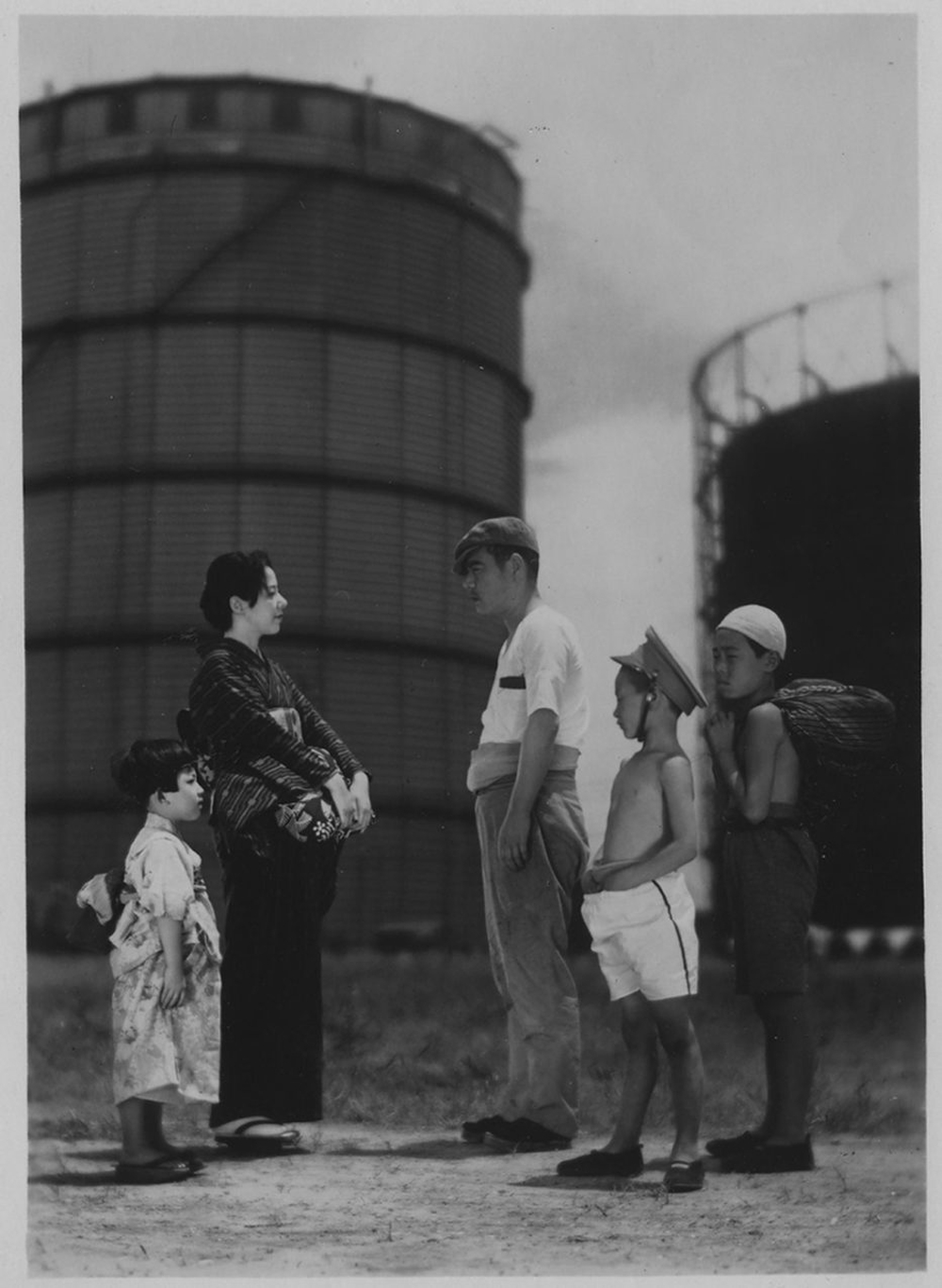 from left to right: Kazuko Kojima, Yoshiko Okada, Takeshi Sakamoto, Takayuki Suematsu and Tomio Aoki in Tōkyō no yado (東京の宿) directed by Yasujirō Ozu - 1935